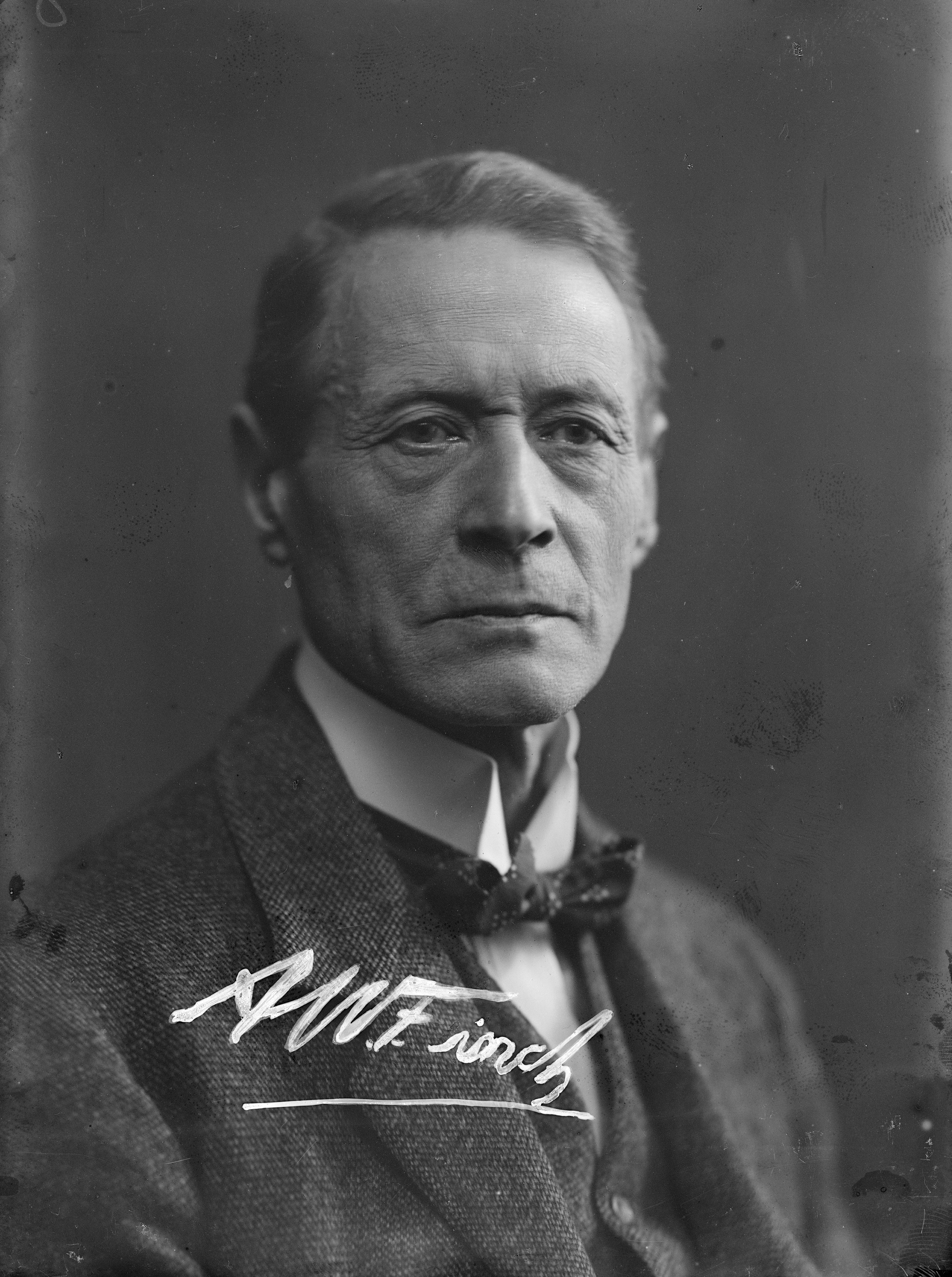 Photograph of the Belgian-Finnish painter and ceramist Alfred William Finch(1854–1930).